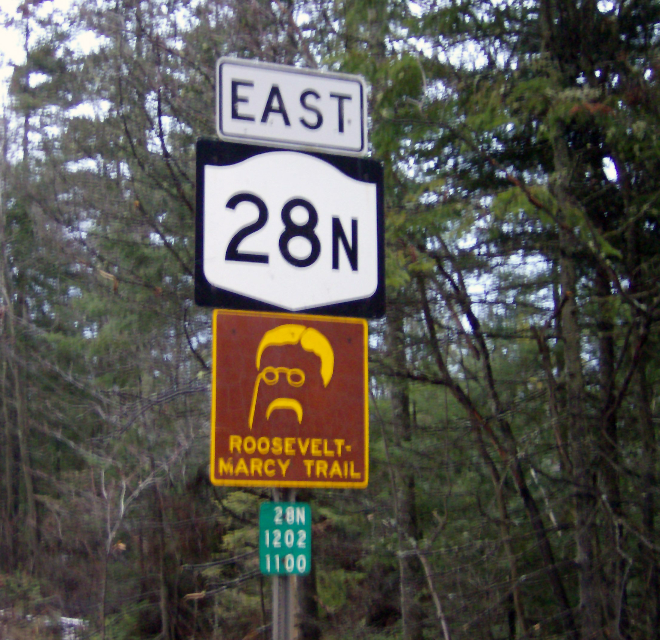 Route marker on NY 28N, displaying sign for Roosevelt-Marcy Trail